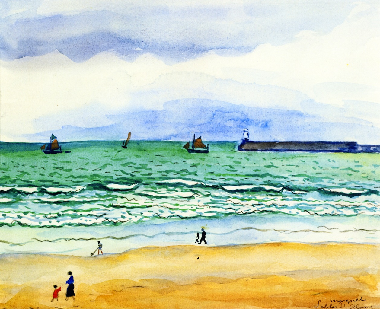 The Sands of Olonne Albert Marquet (1918)